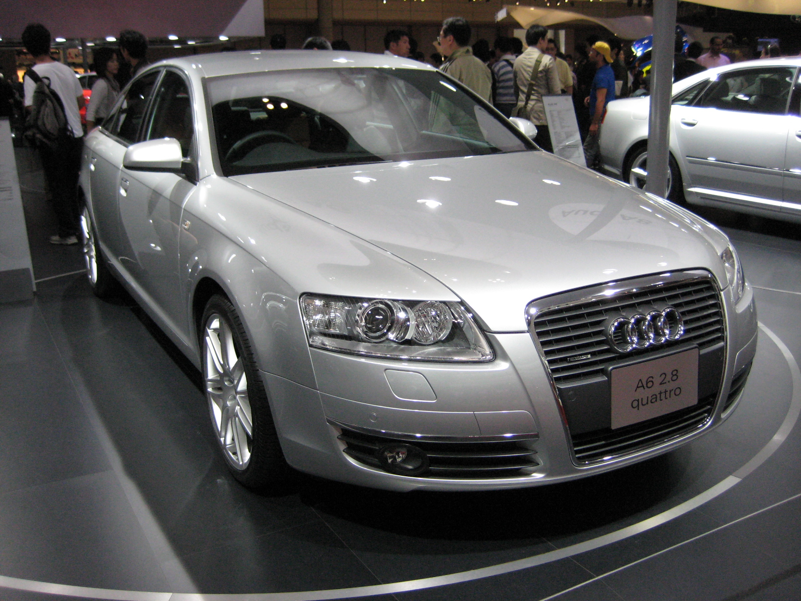 2007 Audi A6 2.8 quattro in Tokyo Motor Show 2007